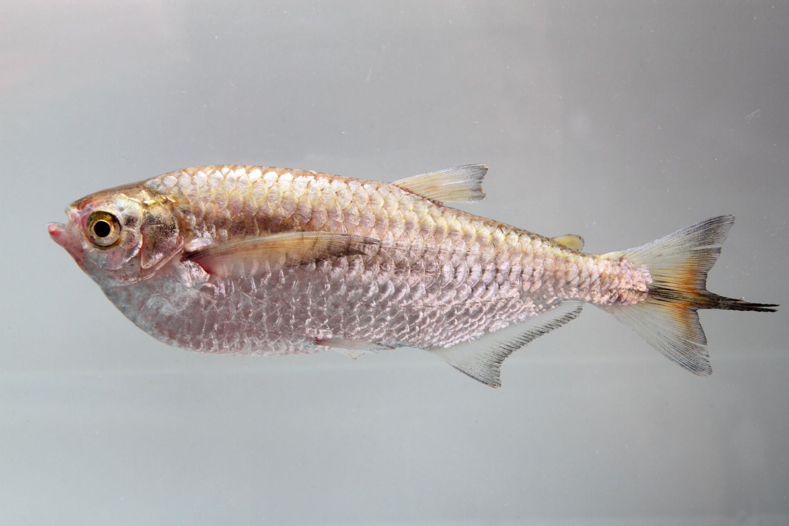 Triportheus cf. angulatus